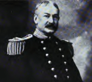 Photograph of Rear Admiral Charles Mitchell Thomas circa 1905-1907